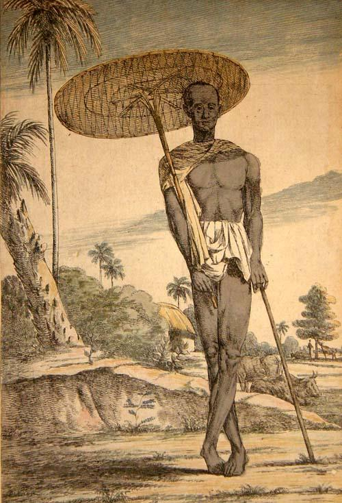 Mounted handcoloured etchings, hand-drawn borders, titles laid on, from Solvyns' celebrated work, "A COLLECTION OF TWO HUNDRED AND FIFTY COLOURED ETCHINGS : DESCRIPTIVE OF THE MANNERS, CUSTOMS AND DRESSES OF THE HINDOOS"; Calcutta,1799."